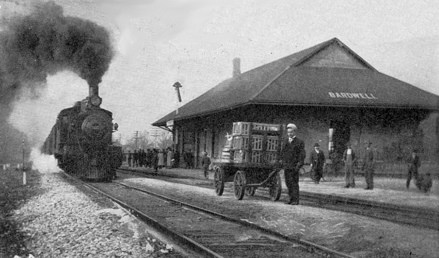 Postcard featuring a train pulling up to the Bardwell Illinois Central Railroad Station, located on Front Street in Bardwell, Kentucky, United States. Built in 1890, the depot was listed on the National Register of Historic Places in 1976; it has since been destroyed, but it remains on the Register.